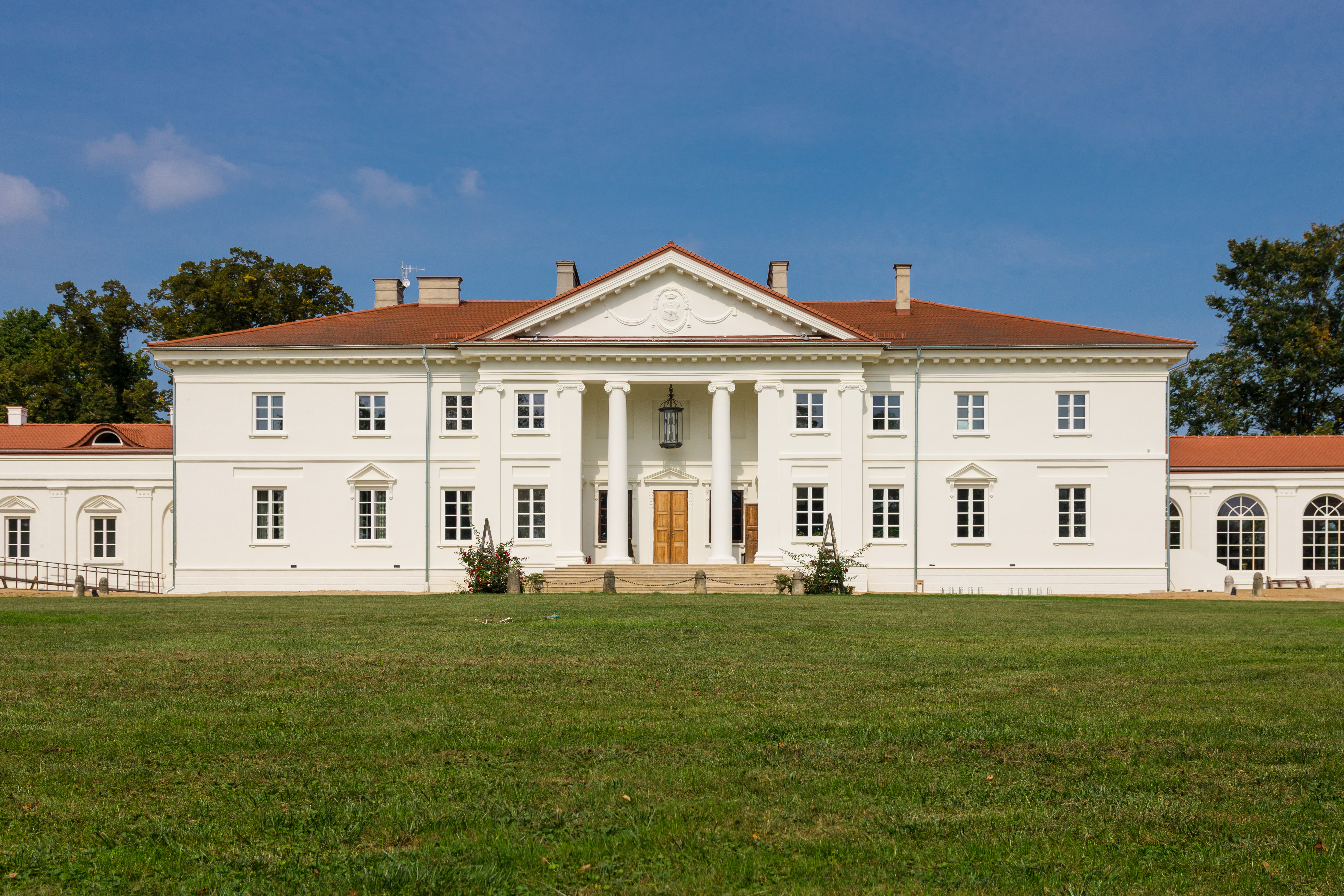 Palace in Korczew, Poland